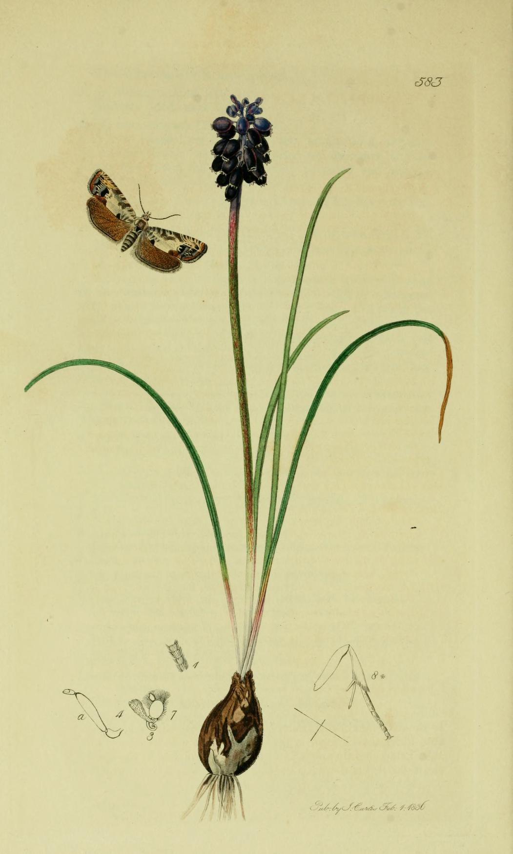 An illustration from British Entomology by John Curtis. Lepidoptera: Philacea juliana or Pammene fasciana (Bentley’s Marbled Tortrix).